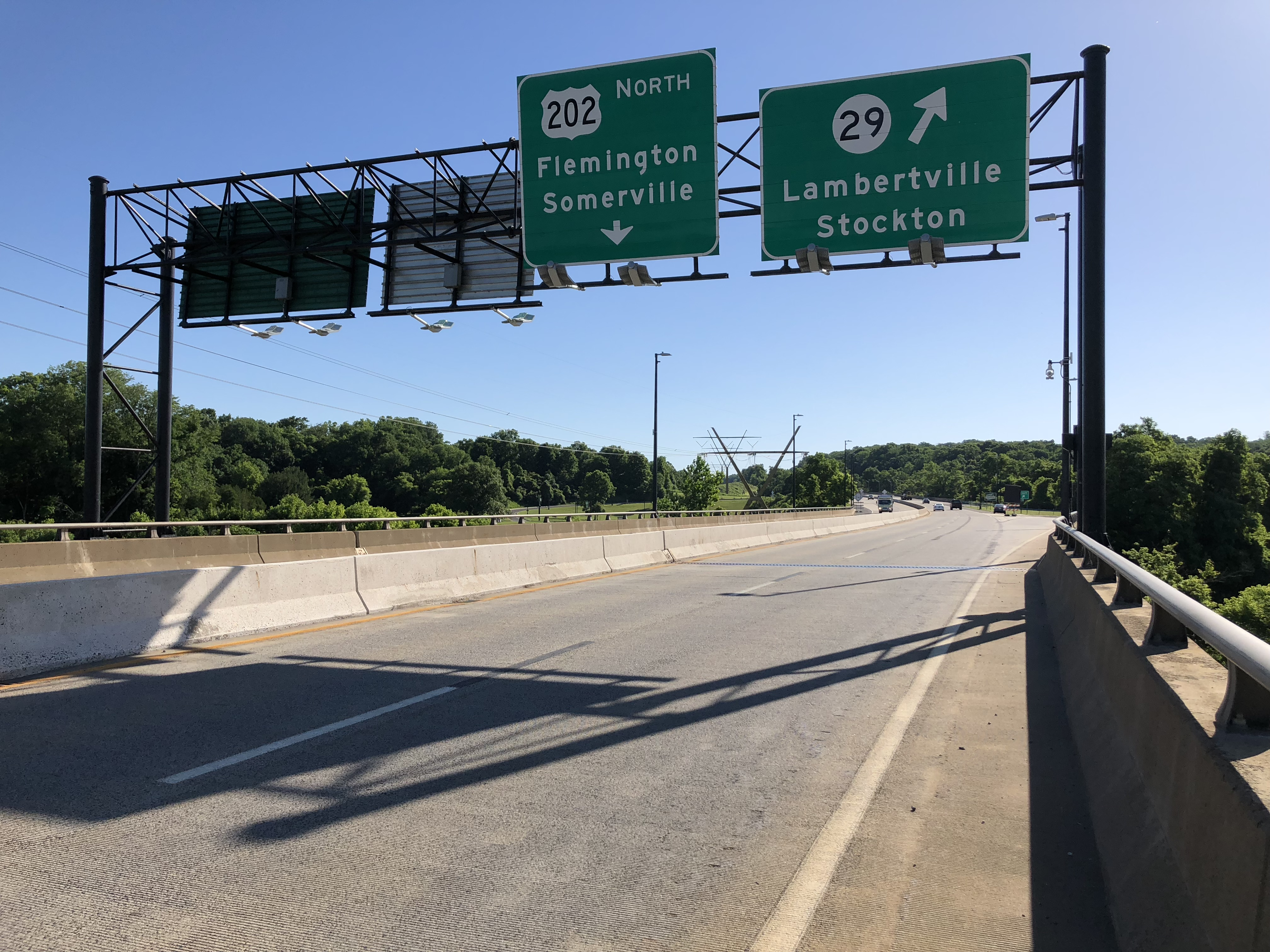 View north along U.S. Route 202 at the exit for New Jersey State Route 29 (Lambertville, Stockton) in Delaware Township, Hunterdon County, New Jersey